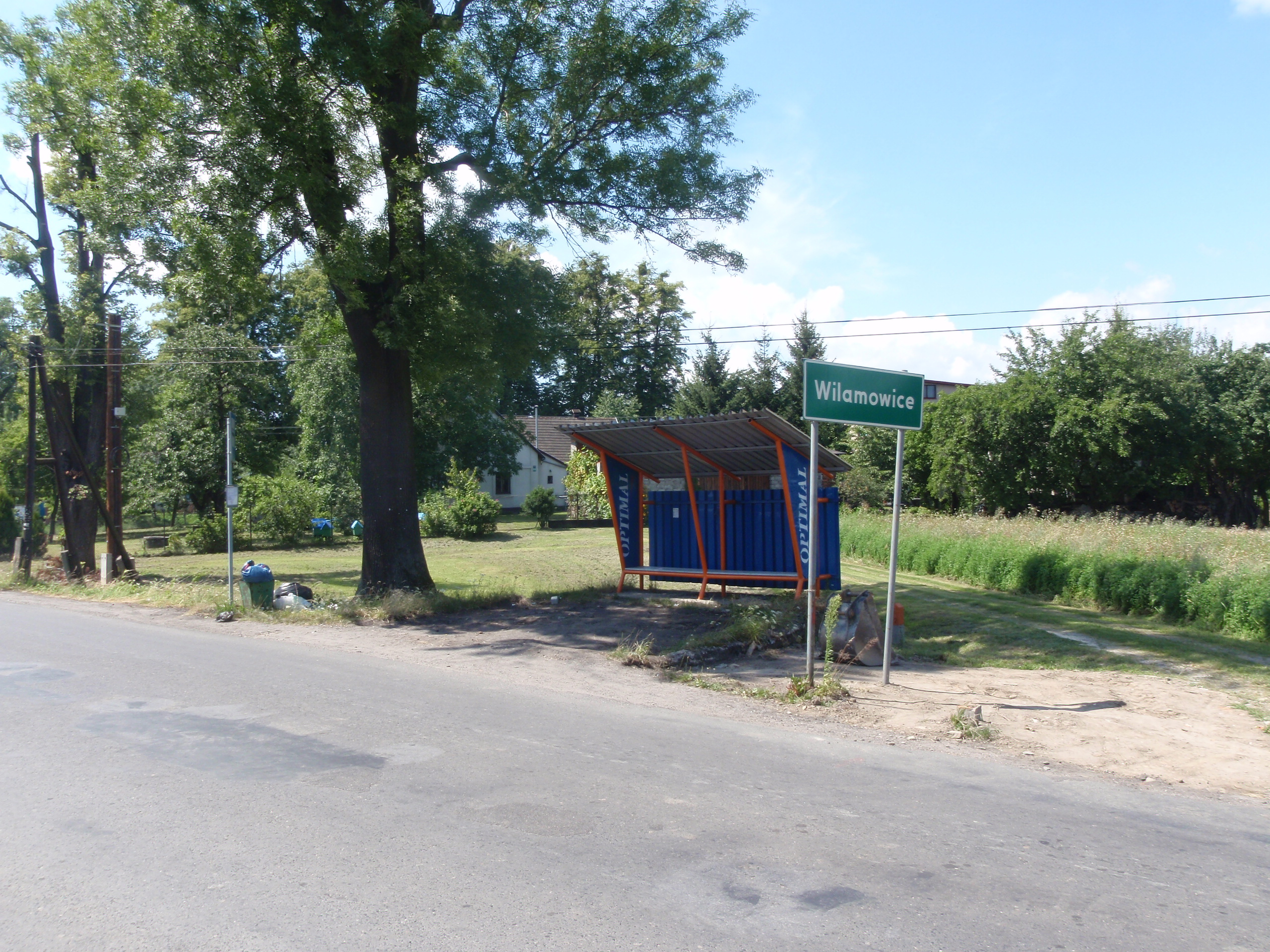 Enterance to village Wilamowice (gmina Skoczów) from Skoczów; bus stop - nonexisten as of 2011